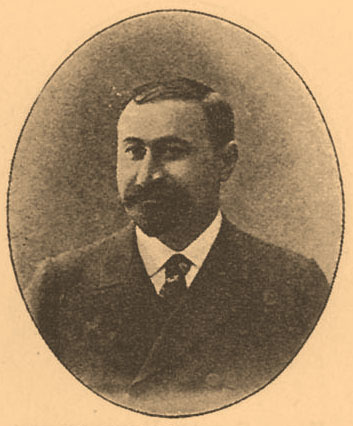 Illustration from Brockhaus and Efron Encyclopedic Dictionary (1890—1907)